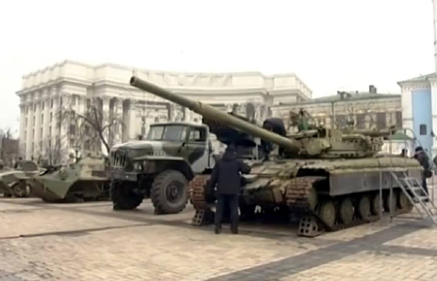 An exhibition called «Presence. Evidence of the Russian Military Aggression on the territory of Ukraine» took place Downtown Kiev at Mykhaylivska Square on February 21-28. The exhibition has been sponsored by the Presidential Administration of Ukraine. The Ministry of Defense of Ukraine participated in preparation of the exposition, particularly, it "has provided the captured heavy weapon delivered to the capital from the frontline. Press Service of the Ministry of Defense of Ukraine"